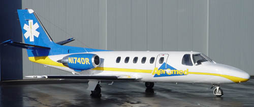 Aeromed Cessna Citation II N174DR Data: Manufacturer: Cessna Model: 550 (Citation II) Year built: 1979 Serial Number (C/N): 550-0074 Number of Seats: 8 Number of Engines: 2